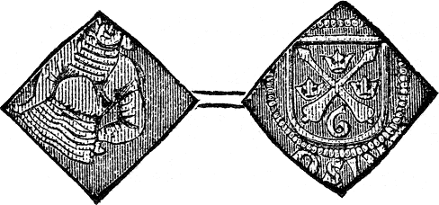 Klipping - Gustav I of Sweden. "In the absence of any authority to levy taxes, he had resorted to the practice of coining money, and had established mints in several places through the realm. His coins, which were known as "klippings," consisted of copper with a very slight admixture of silver, and twenty-four of them were issued for a mark. As a matter of fact their actual value fell far below what they purported to be worth." - The Project Gutenberg EBook of The Swedish Revolution Under Gustavus Vasa, by Paul Barron Watson